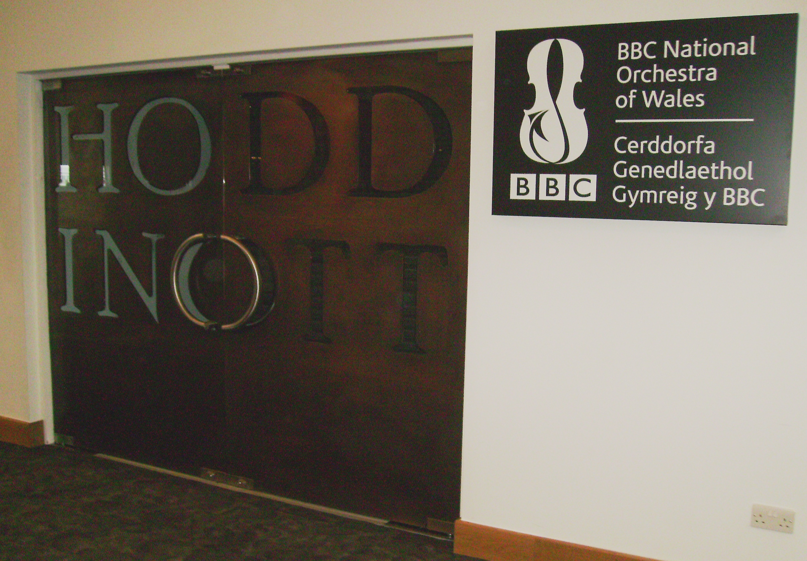 Construction Board, Wales Millennium Centre, Cardiff Bay, Cardiff, Wales